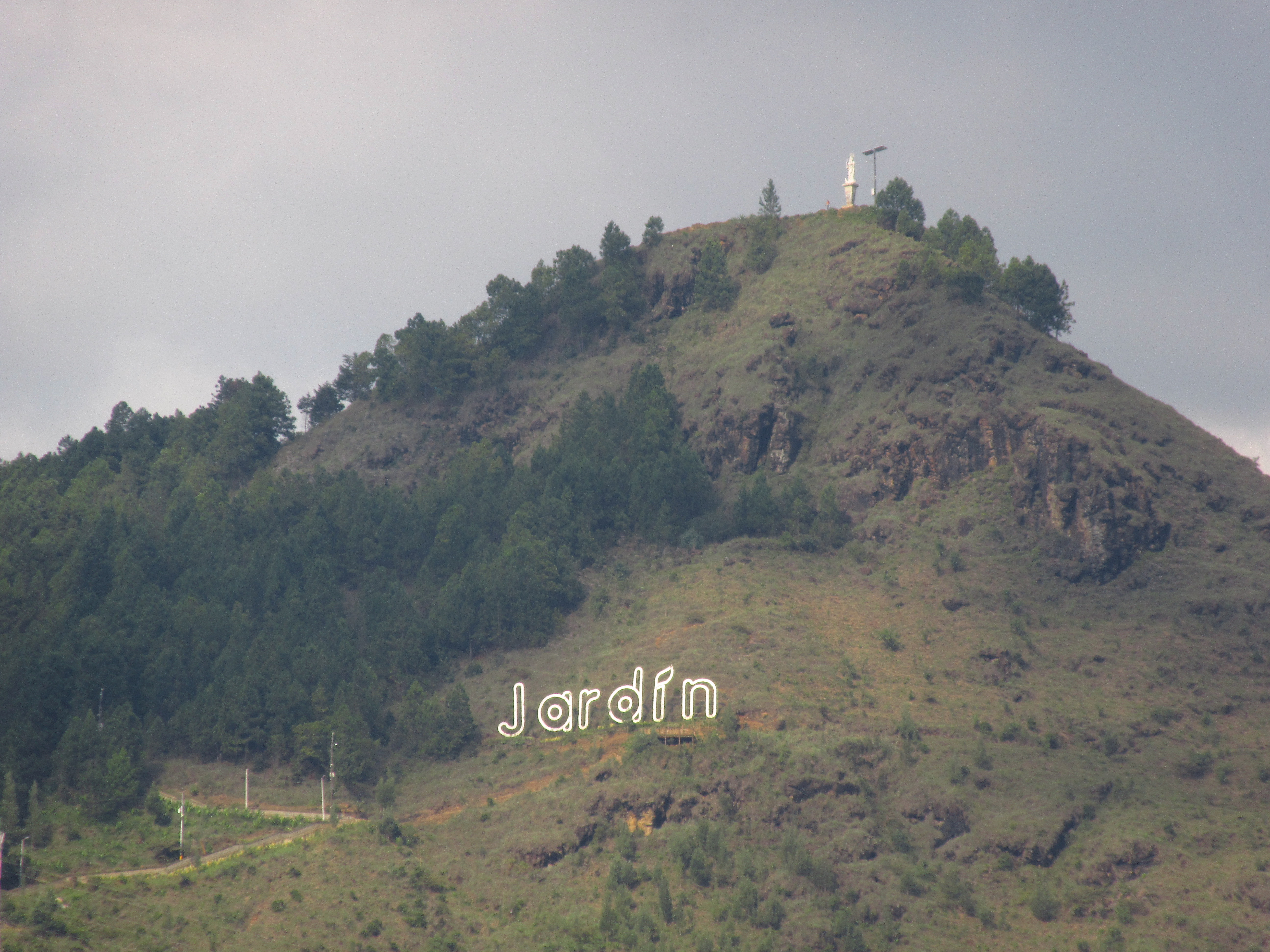 Medellín